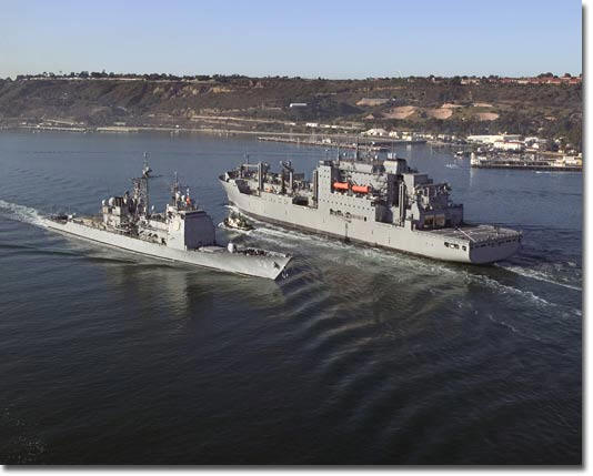 USNS Sacagawea (T-AKE-2) passing USS Mobile Bay (CG-53) (?) in the entrance to San Diego Bay (?)